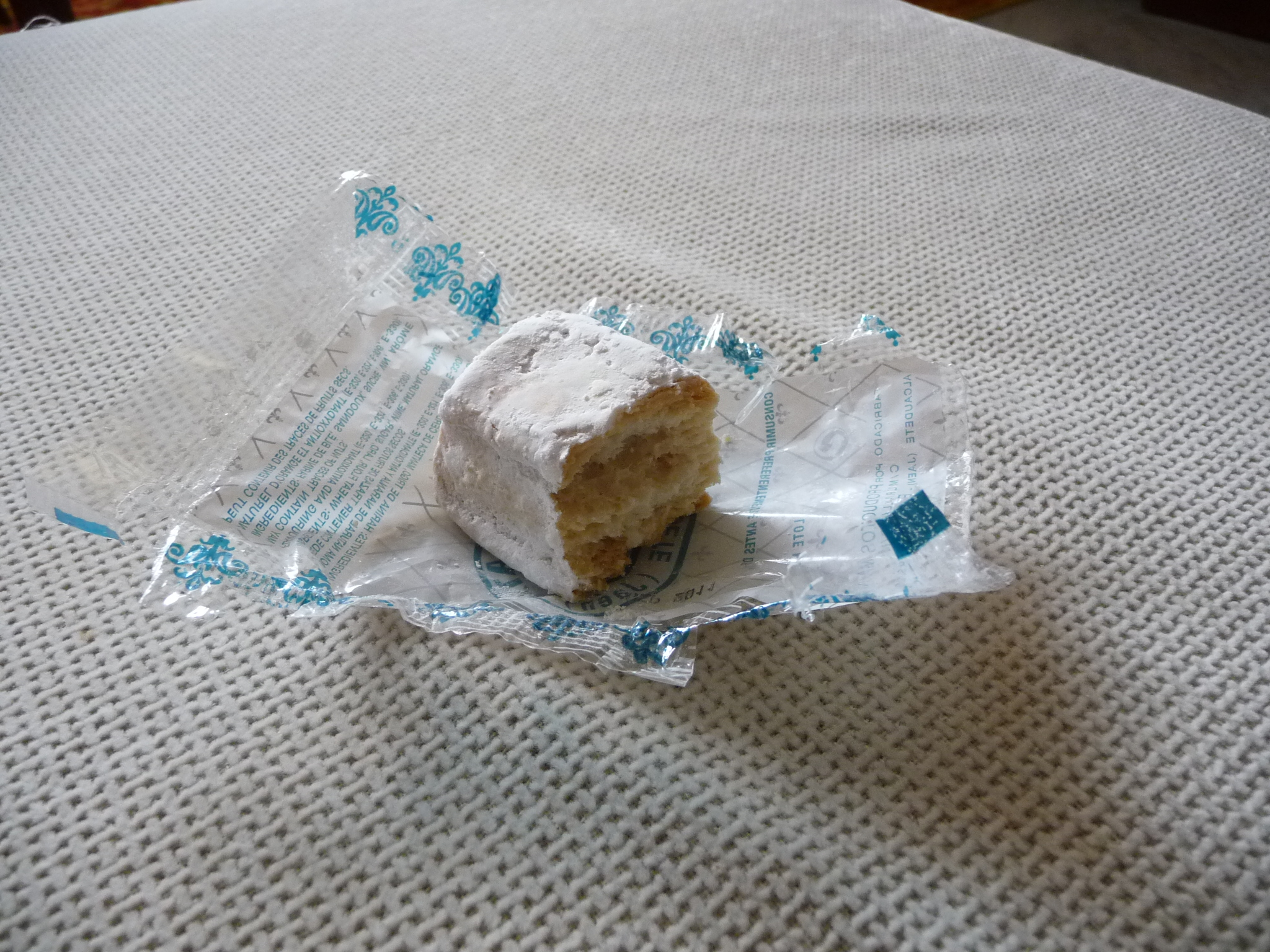 Hojaldrina